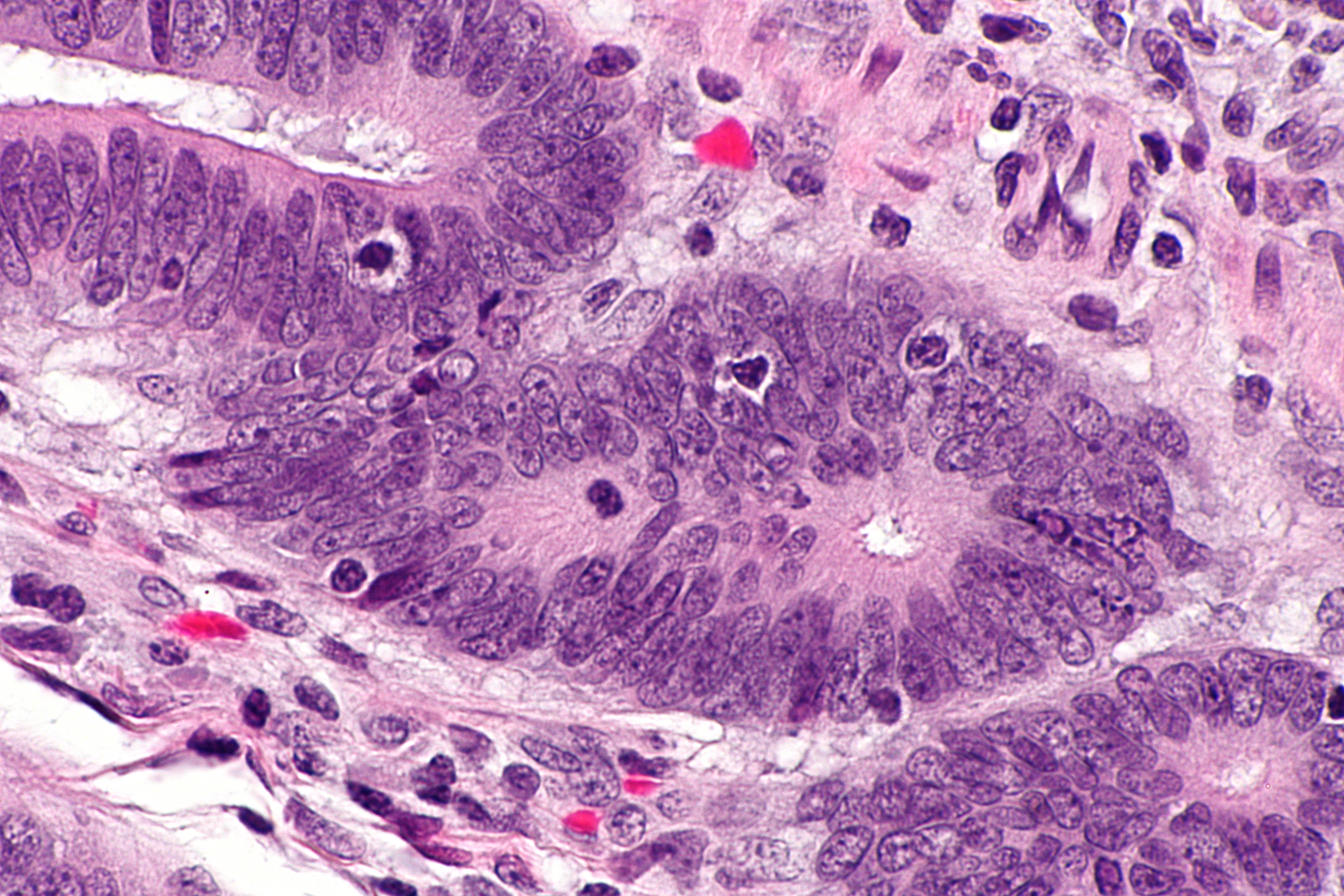 Micrograph showing tumour-infiltrating lymphocytes in colorectal carcinoma. H&E stain. Tumour-infiltrating lymphocytes (TILs) are suggestive of microsatellite instability (MSI), and may be seen in Lynch syndrome. Related images TILs - high mag. TILs - very high mag. TILs - high mag. TILs - very high mag. TILs - extremely high mag.